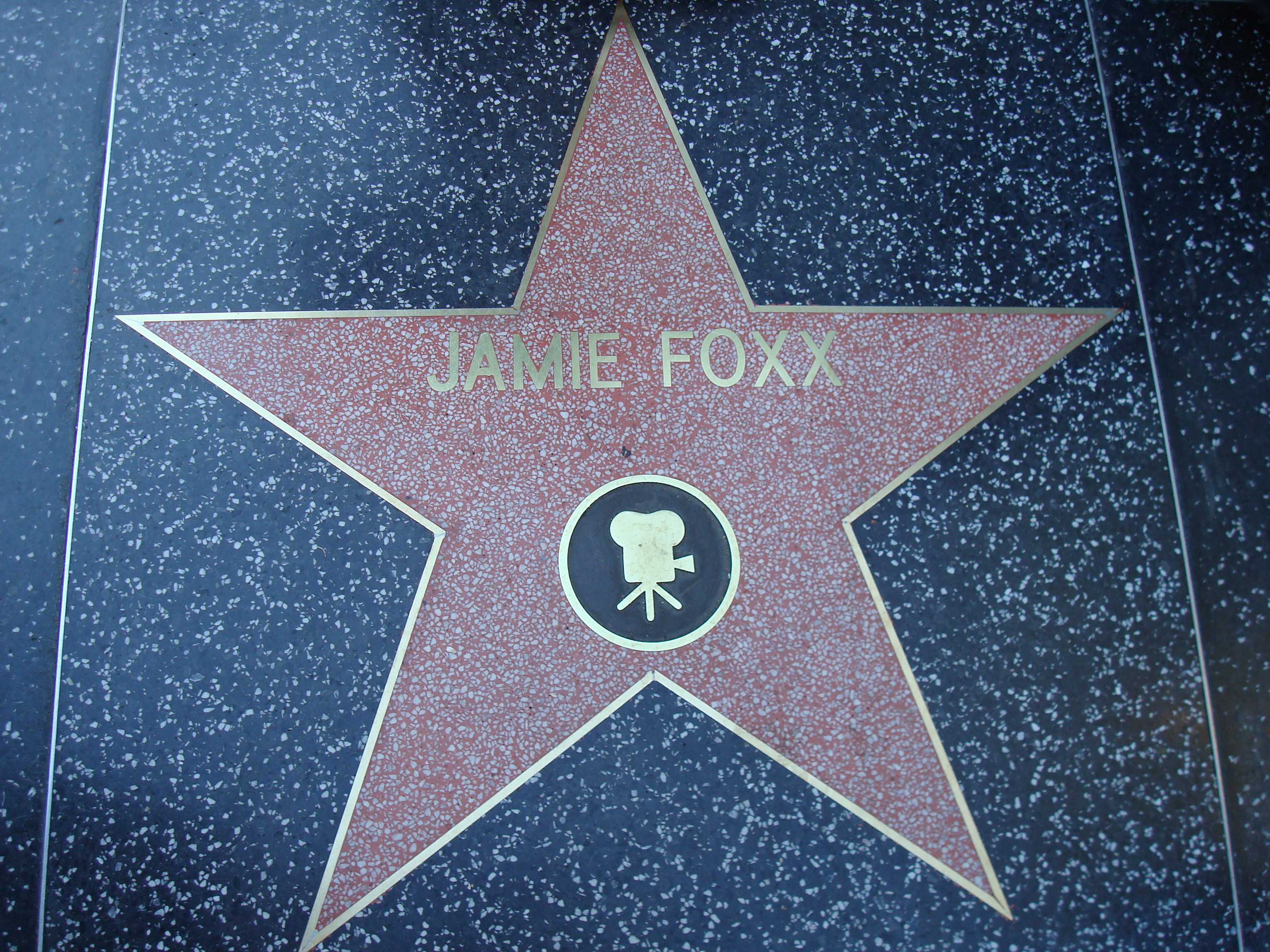 Star on Hollywood Walk of Fame with name of actor Jamie Foxx.